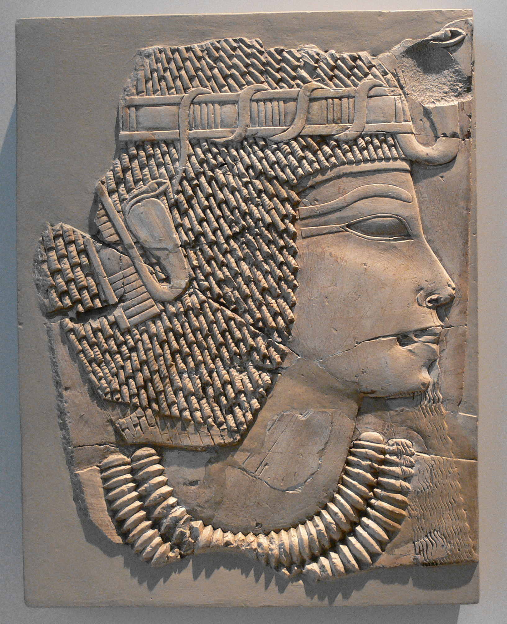 Relief of King Amenhotep III; limestone; Theben West; New Kingdom, 18th dynasty; c. 1360 BC. Egyptian Museum Berlin, Inv. no. 14503.